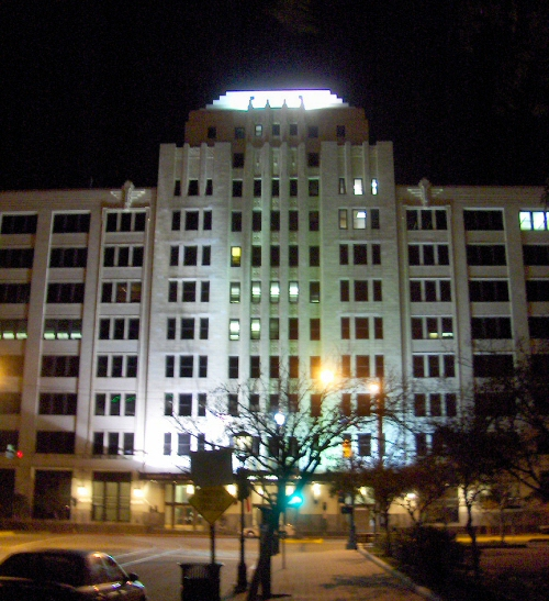 Shearn Moody Plaza/Galveston Railroad Museum in Galveston, Texas